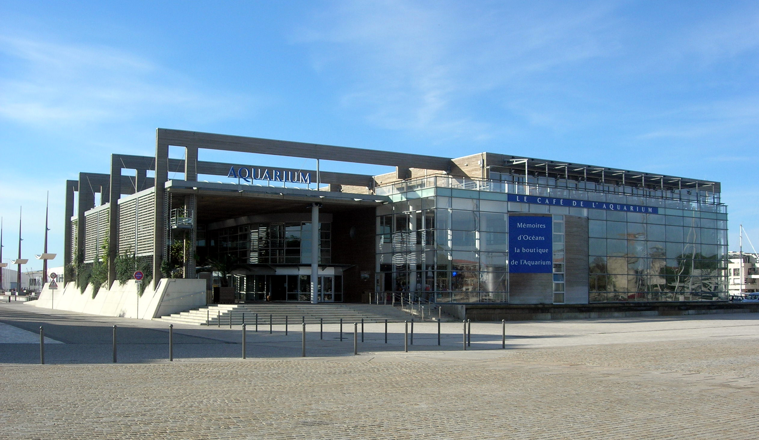 Description =Aquarium de la Rochelle Source =Photo taken by Remi Jouan Date =Octobre 2006 Author =Remi Jouan